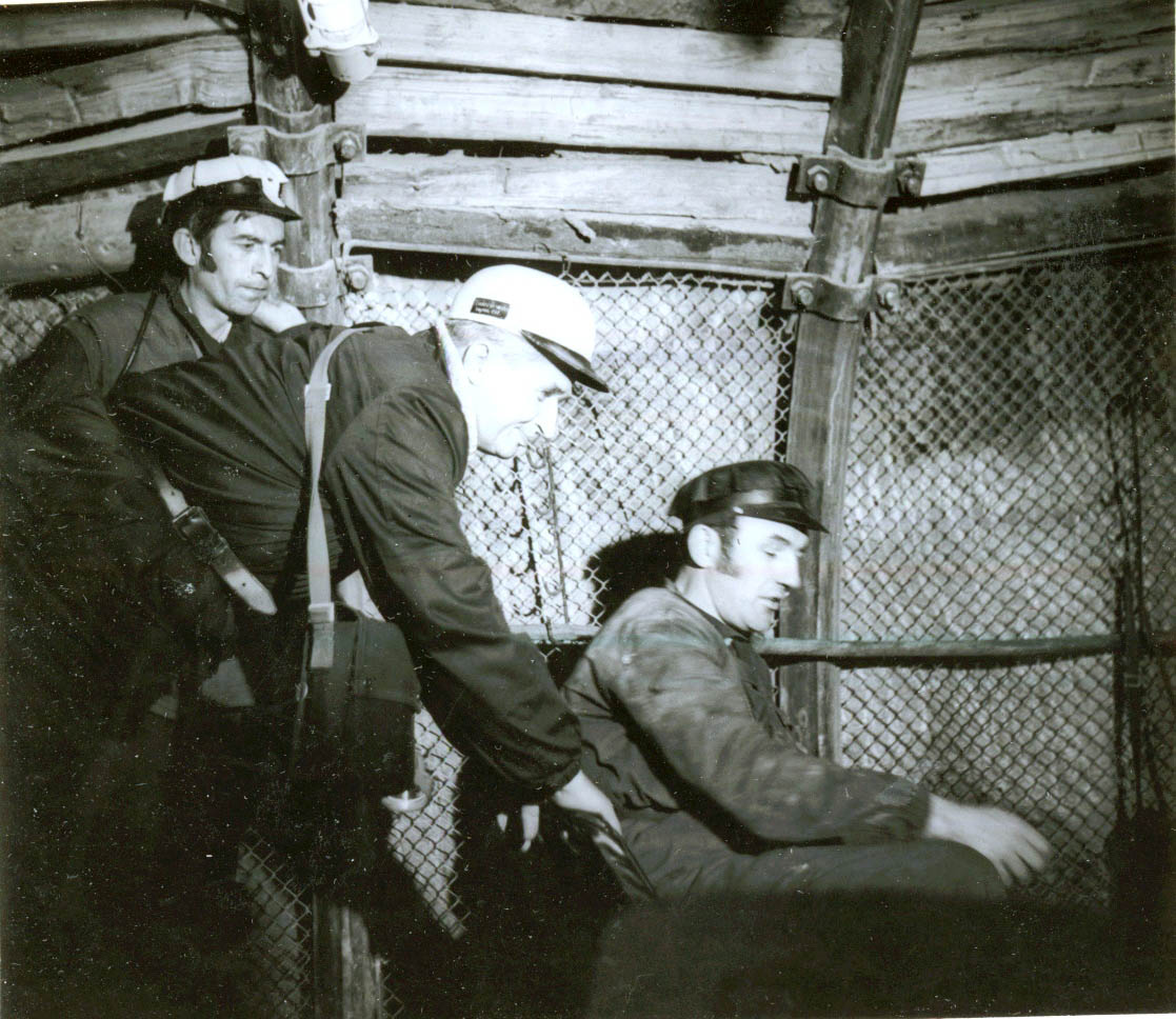 Ceauşescu visits Lupeni.